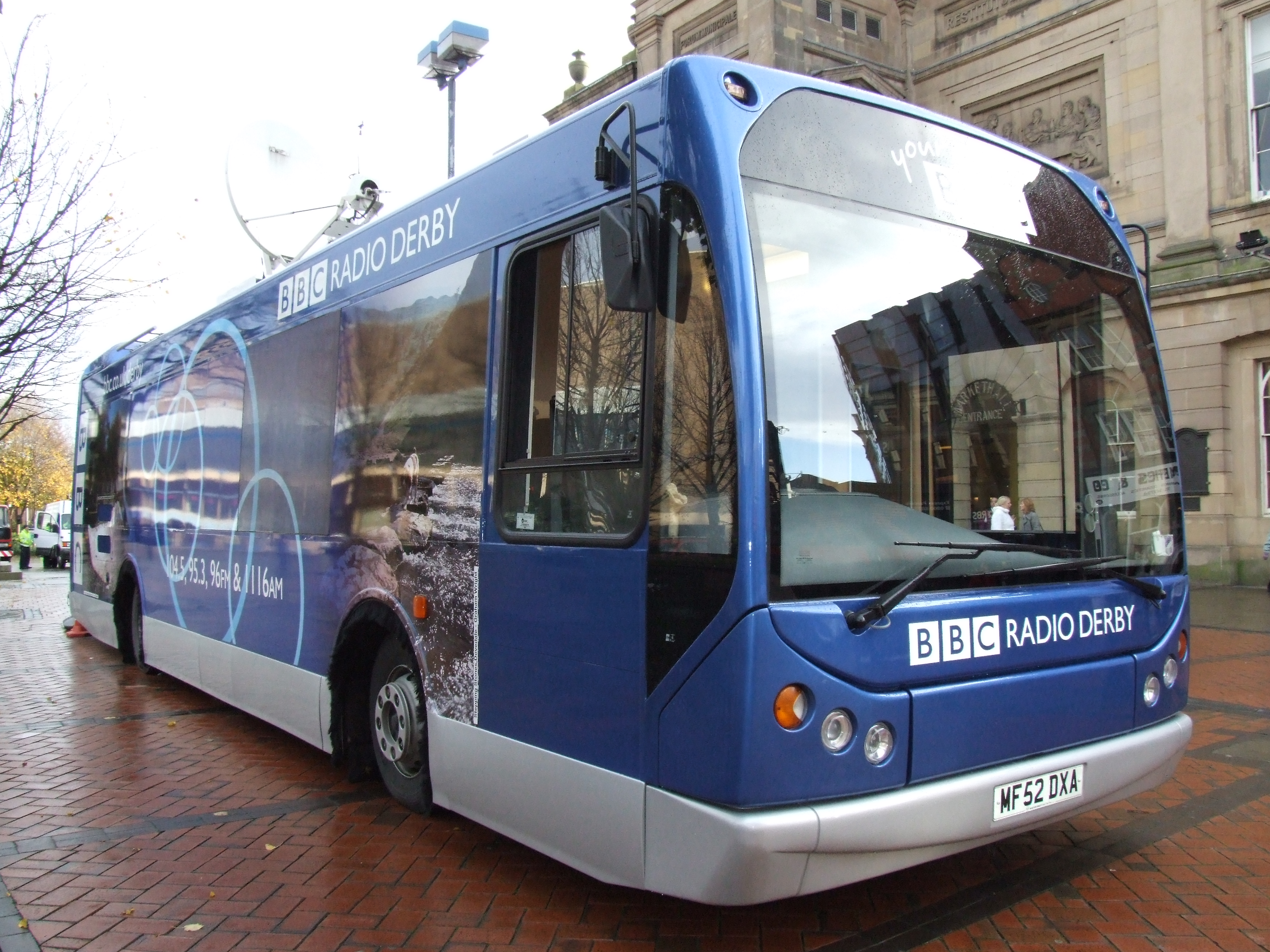 BBC Radio Derby Bus in England. East Lancs Myllennium (body) with MAN chassis.